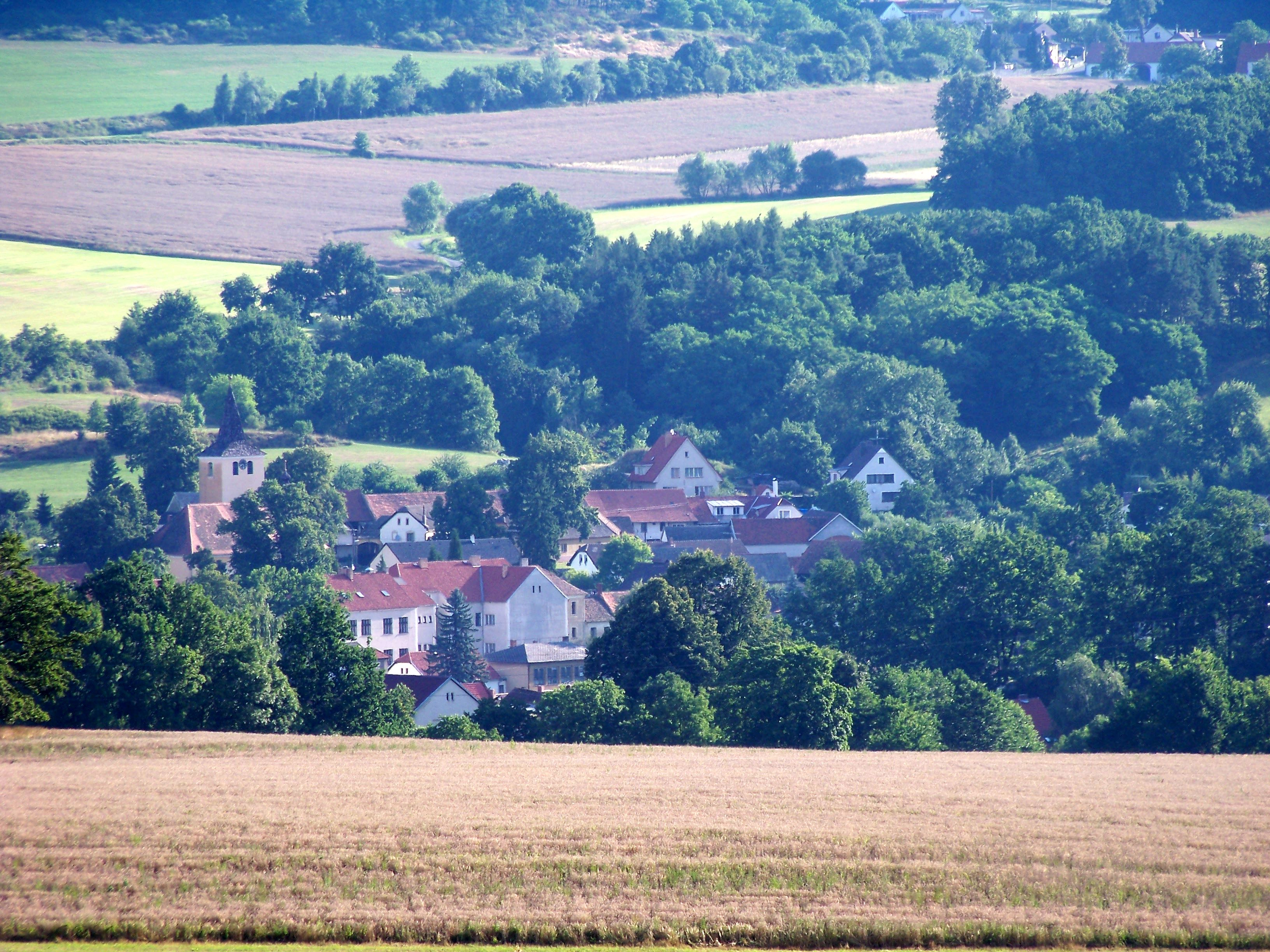 Jesenice, Příbram District, Central Bohemian Region, the Czech Republic. - Google Maps - Google Earth